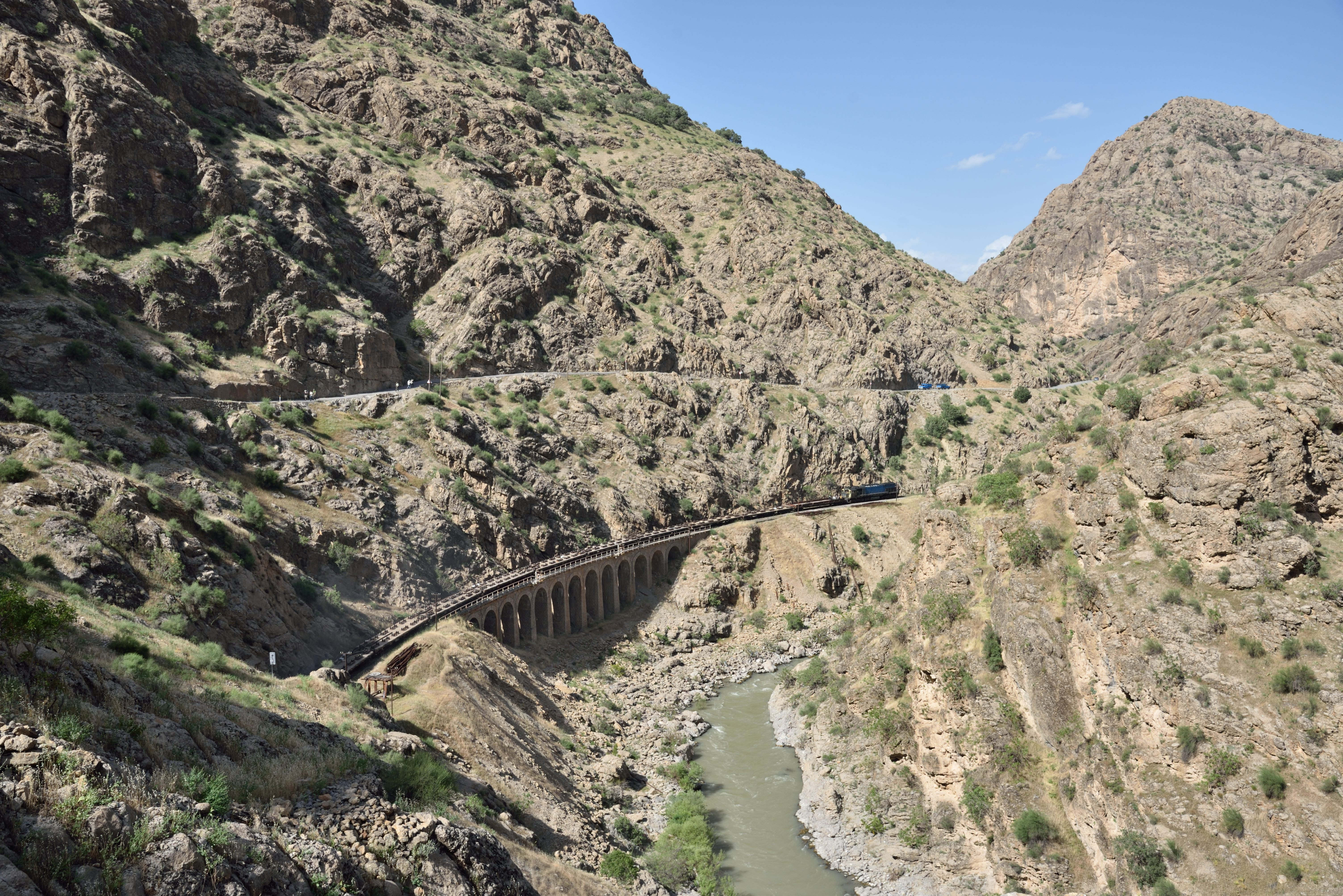 Railway bridges in Iran